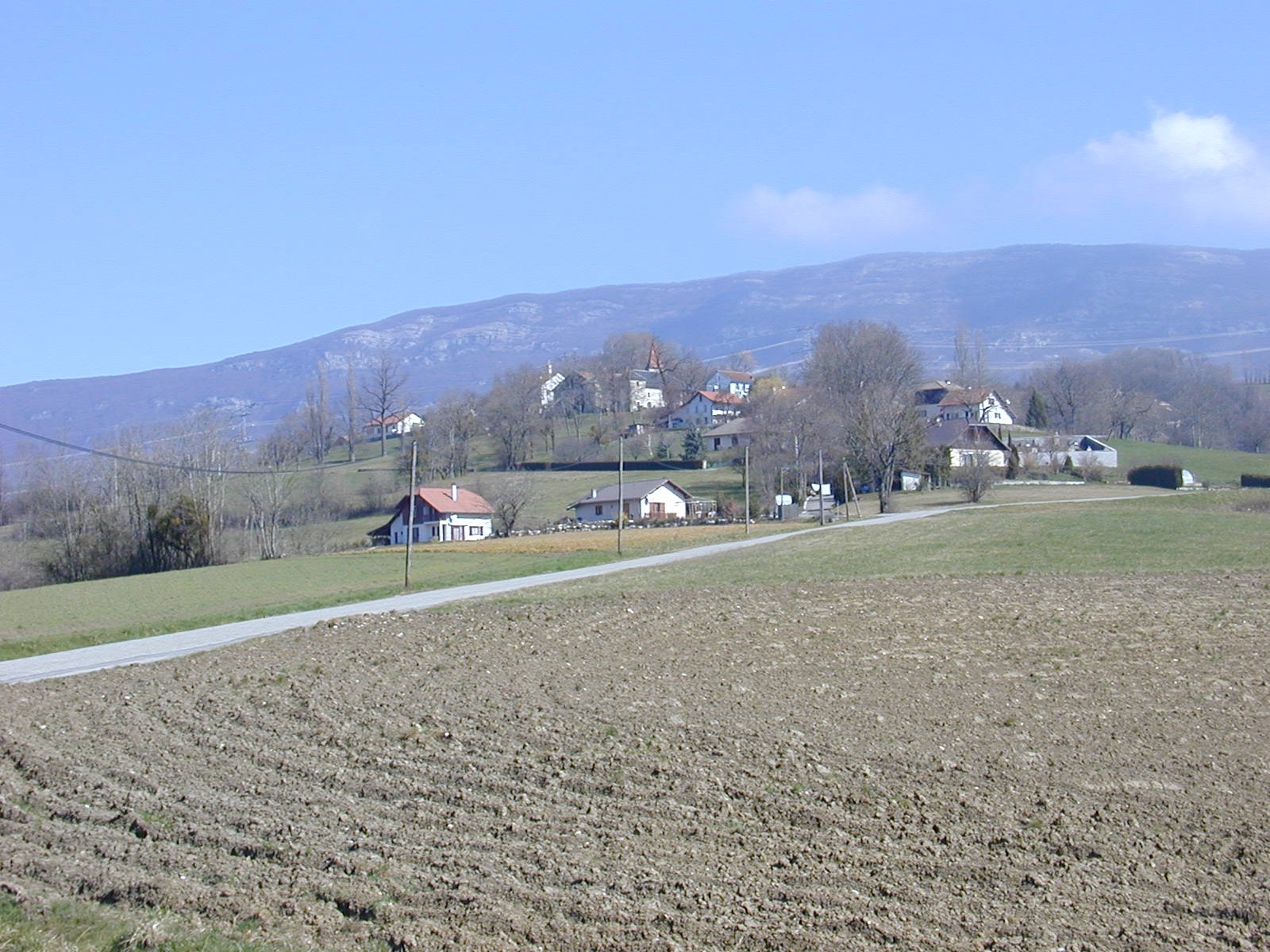 Village of Chessenaz, Haute-Savoie, France.